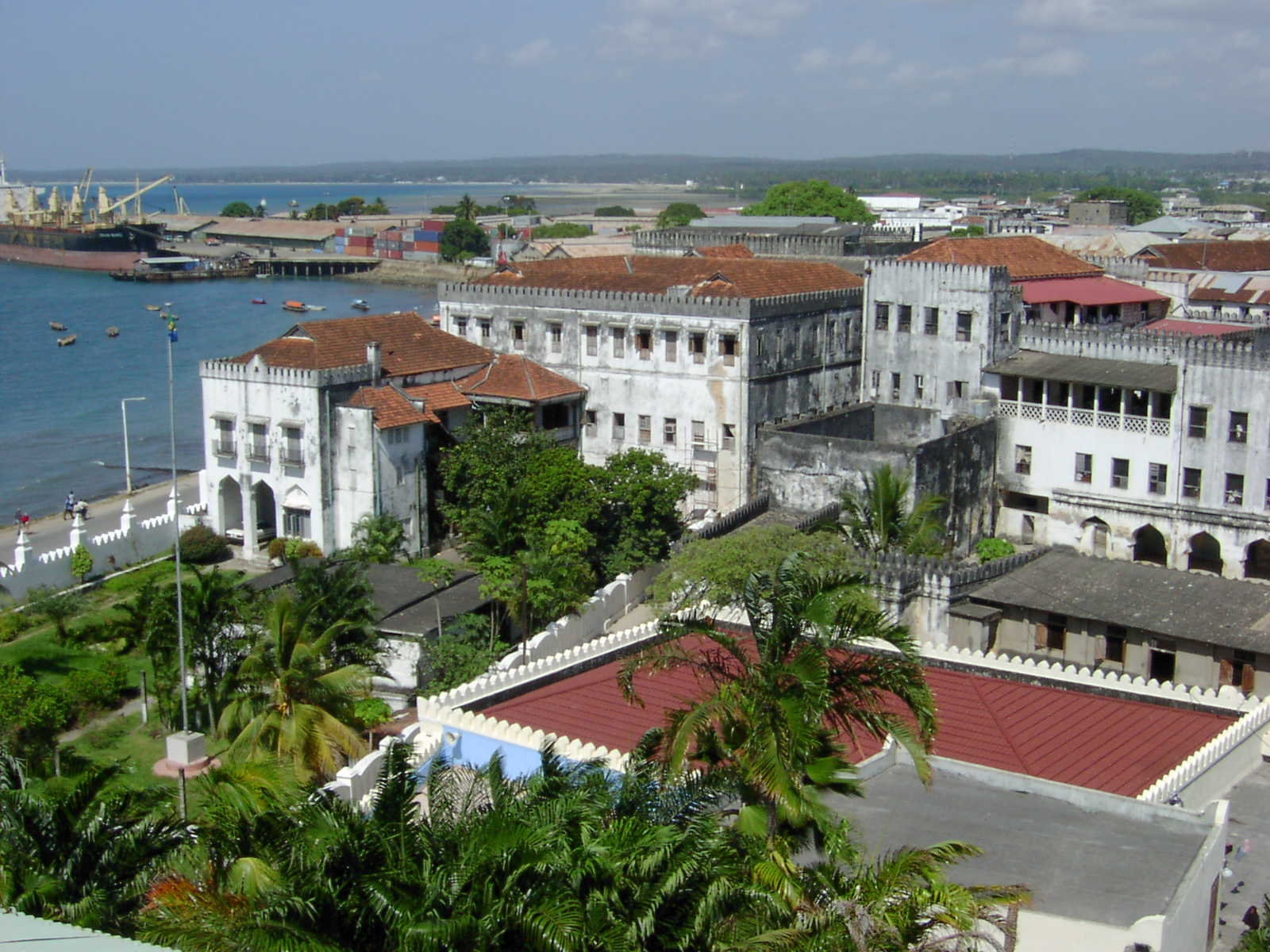 Palace of the Sultan of Zanzibar — in Stone Town, Zanzibar City, Unguja island. As seen from the upper floor of the Beit al Ajaib (House of Wonders) museum. Zanzibar Archipelago, Tanzania, East Africa.